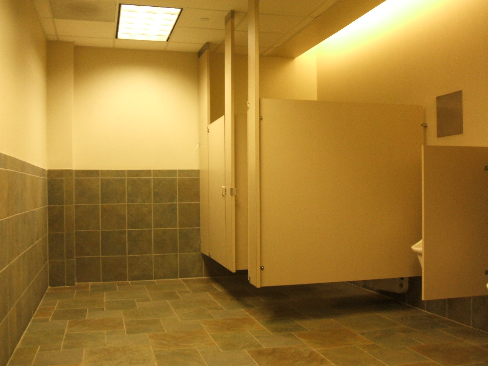 Typical Male Restroom in the U.S.